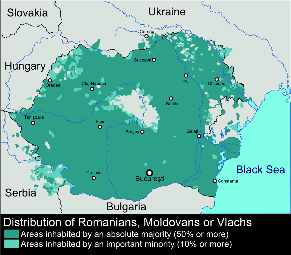 Distribution of ethnic Romanians, Vlachs or Moldavians in and around Romania and Moldova. Contents 1 Sources 2 Licensing 3 Sources 4 References 5 Original upload log Sources Romania Census 2002 - map Moldova Census 1989 (could not find a good map for 2004) - map Serbia Census 2002 - map Chernivtsi Oblast Census 1980? - map Budjak region Census 1980? - map Zakarpatia Oblast Census 1980? - map Bulgaria Census 1912 (could not find a more recent map) - map1 and map2 Hungary Census 1989-1992? - map